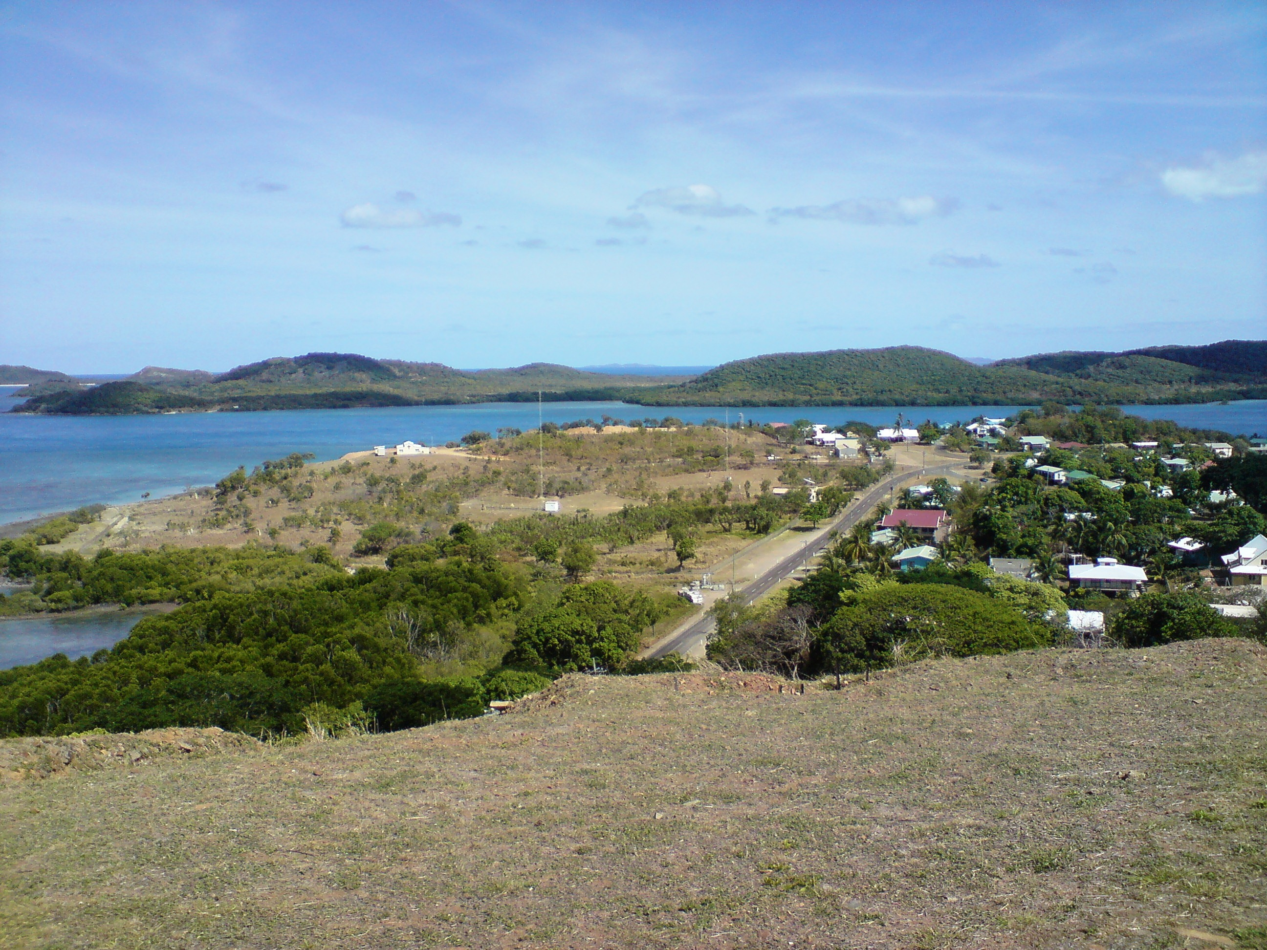 Over looking the Thursday Island, Torres Strait.